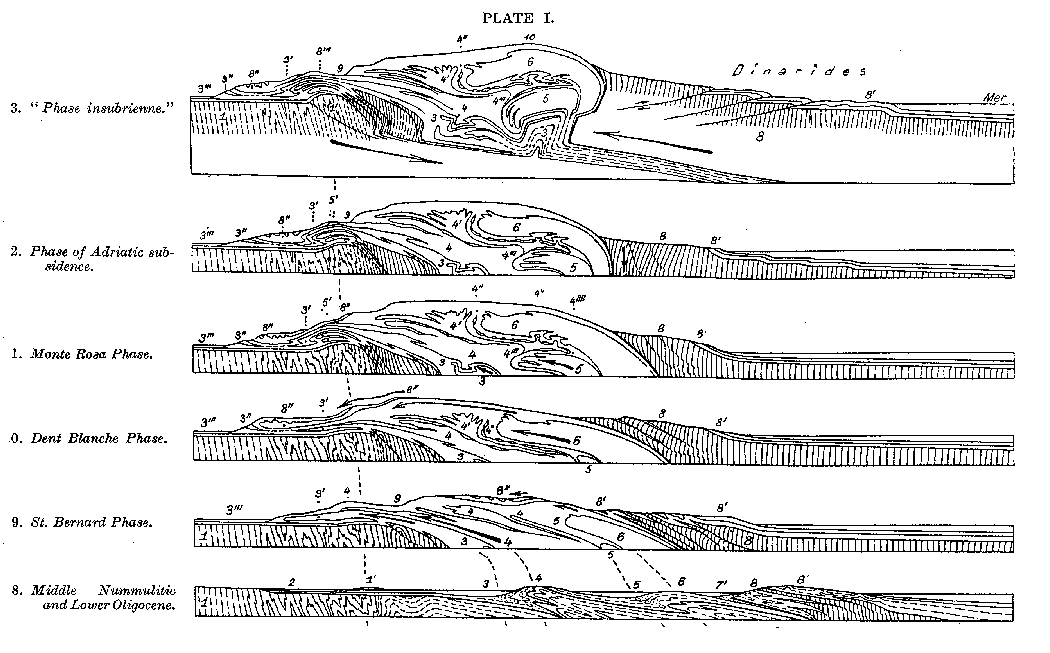 Alpine evolution by cross-sections: oldest are at the bottom, youngest are at the top